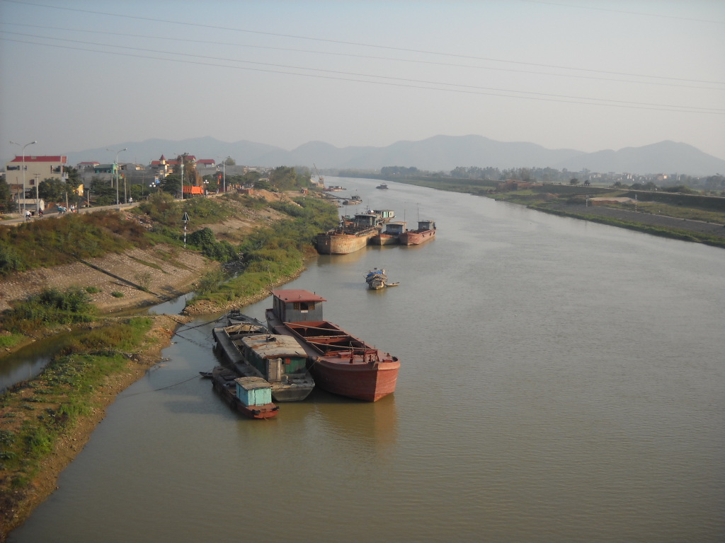 Cau River, Viet Yen, Bắc Giang Province, Vietnam